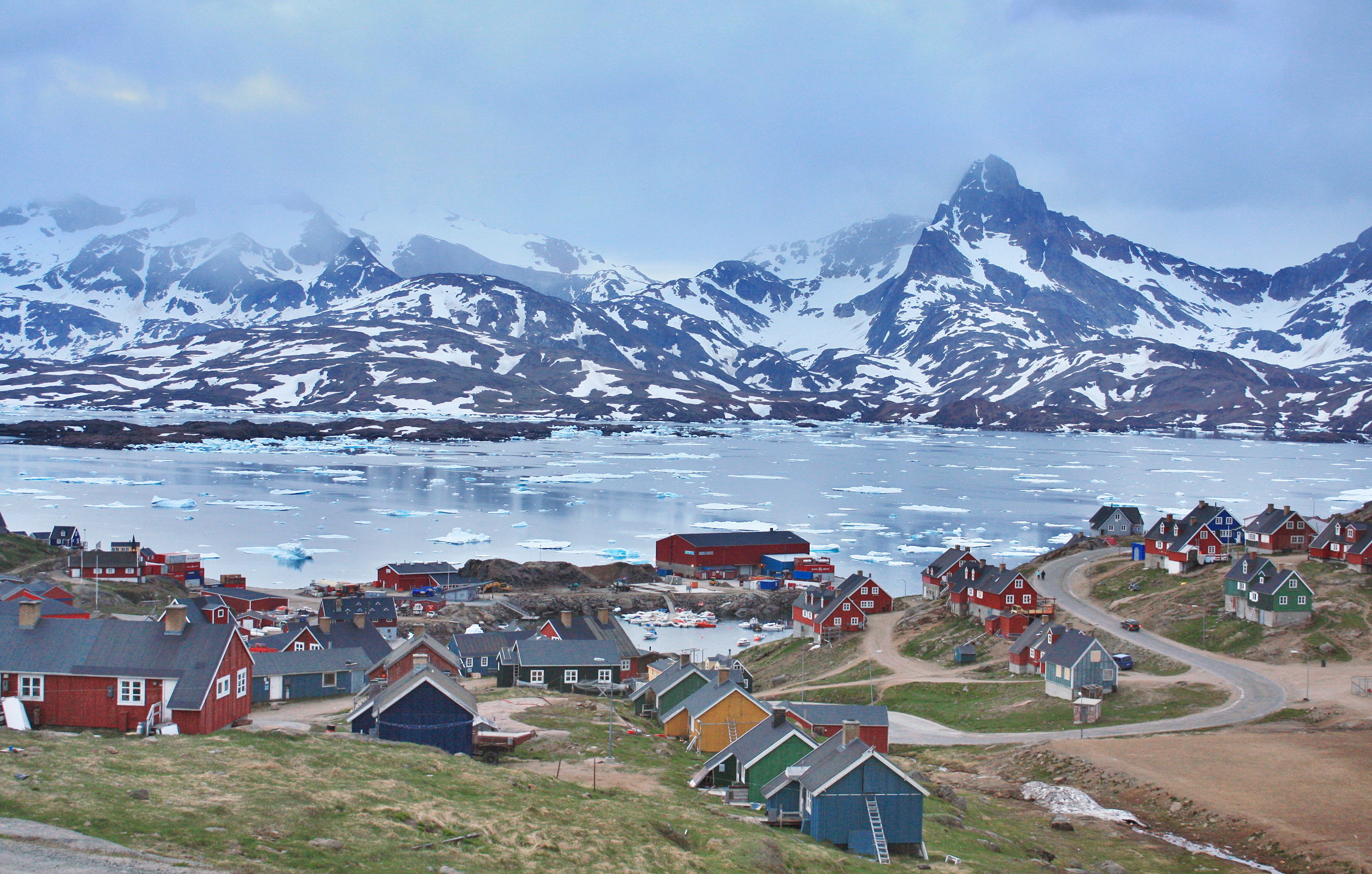 Night shot of Tasiilaq, eastern Greenland in the summer.